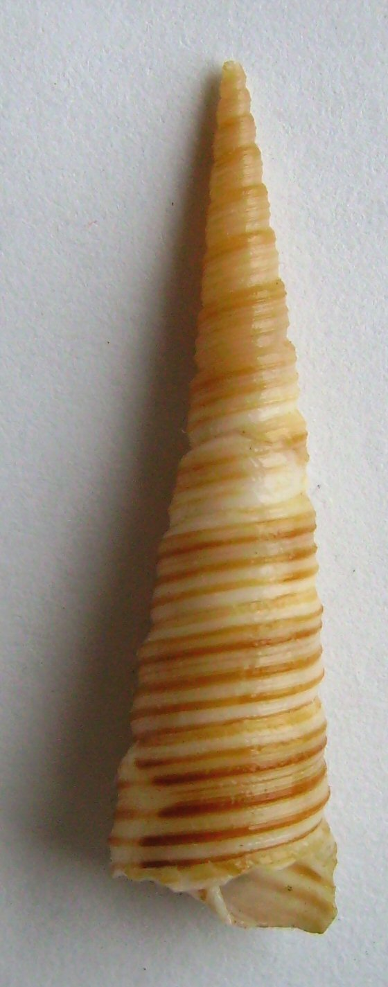 Zeacolpus vittatus dredged from north of Pakiri, New Zealand. This work has been released into the public domain by its author, Graham Bould. This applies worldwide.In some countries this may not be legally possible; if so:Graham Bould grants anyone the right to use this work for any purpose, without any conditions, unless such conditions are required by law.